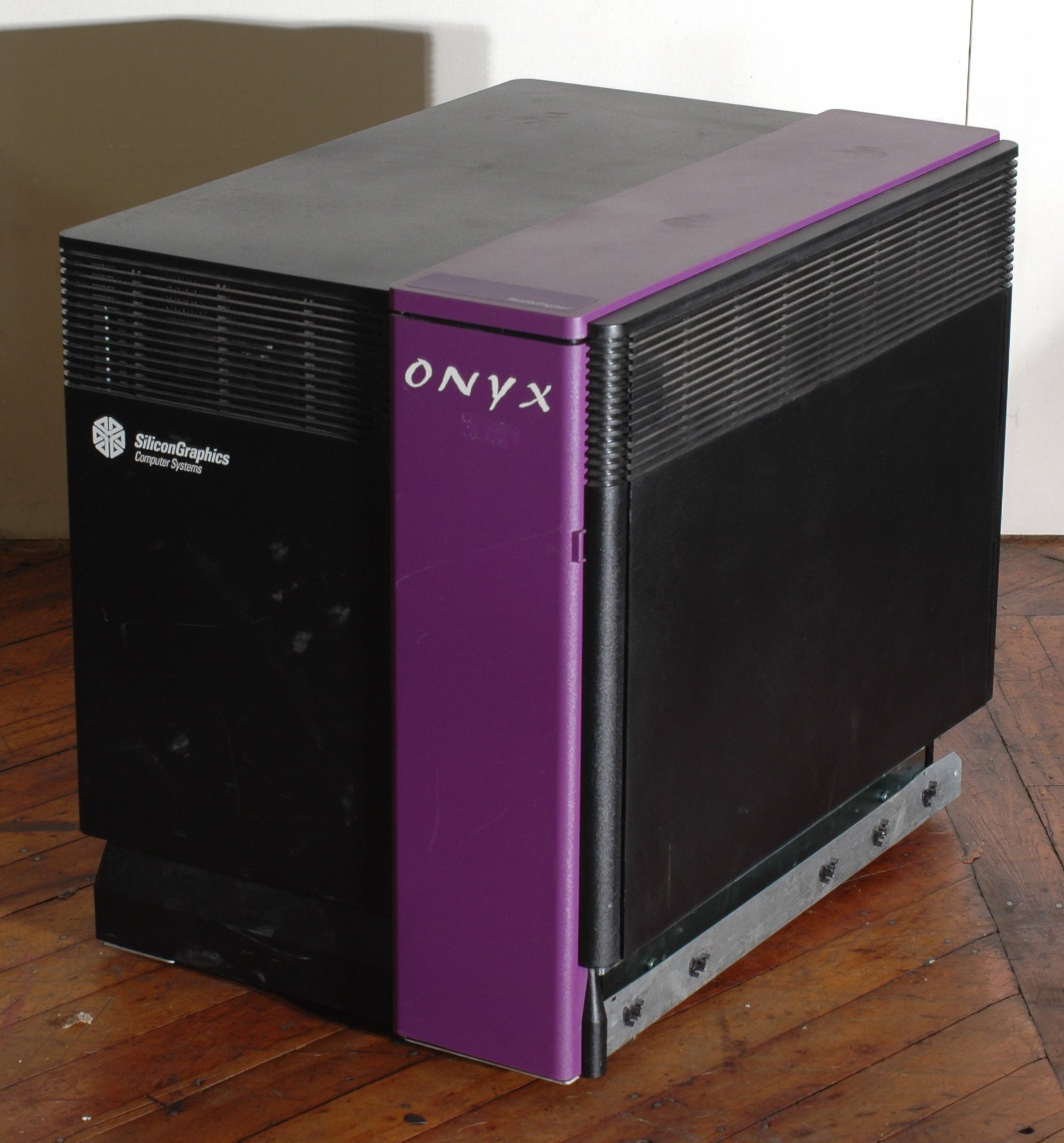 SGI Deskside Onyx graphics workstation. From the collection of the RCS/RI.